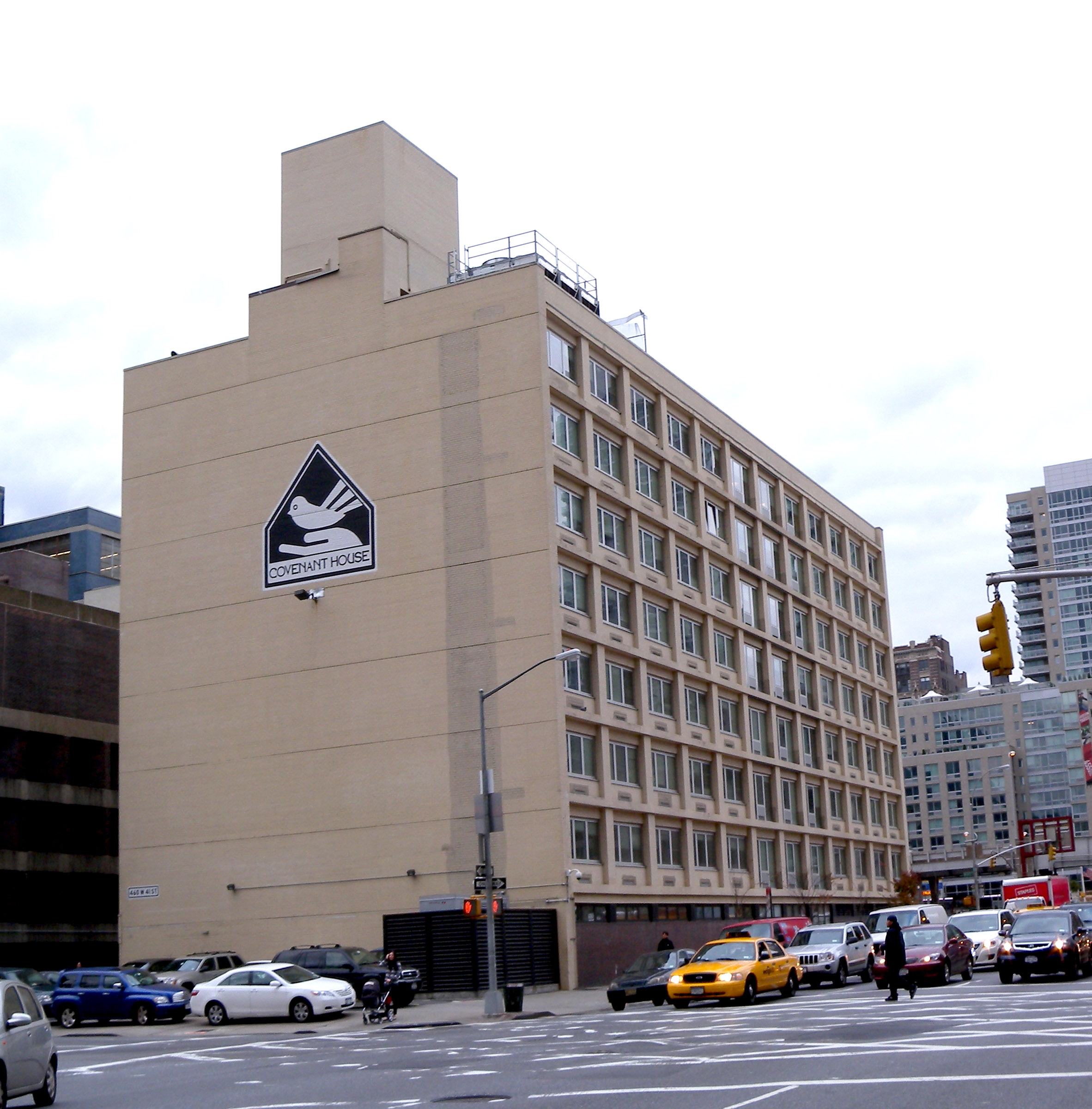 Looking south from 43d St and 10th Av at Covenant House.